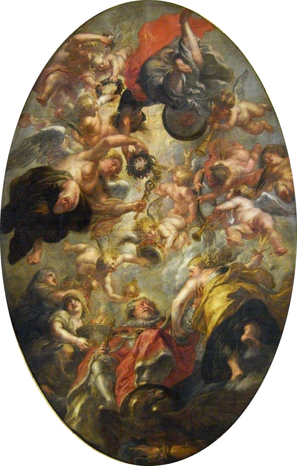 The Apotheosis of James I